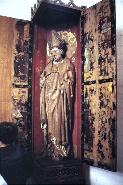 Maribo Cathedral